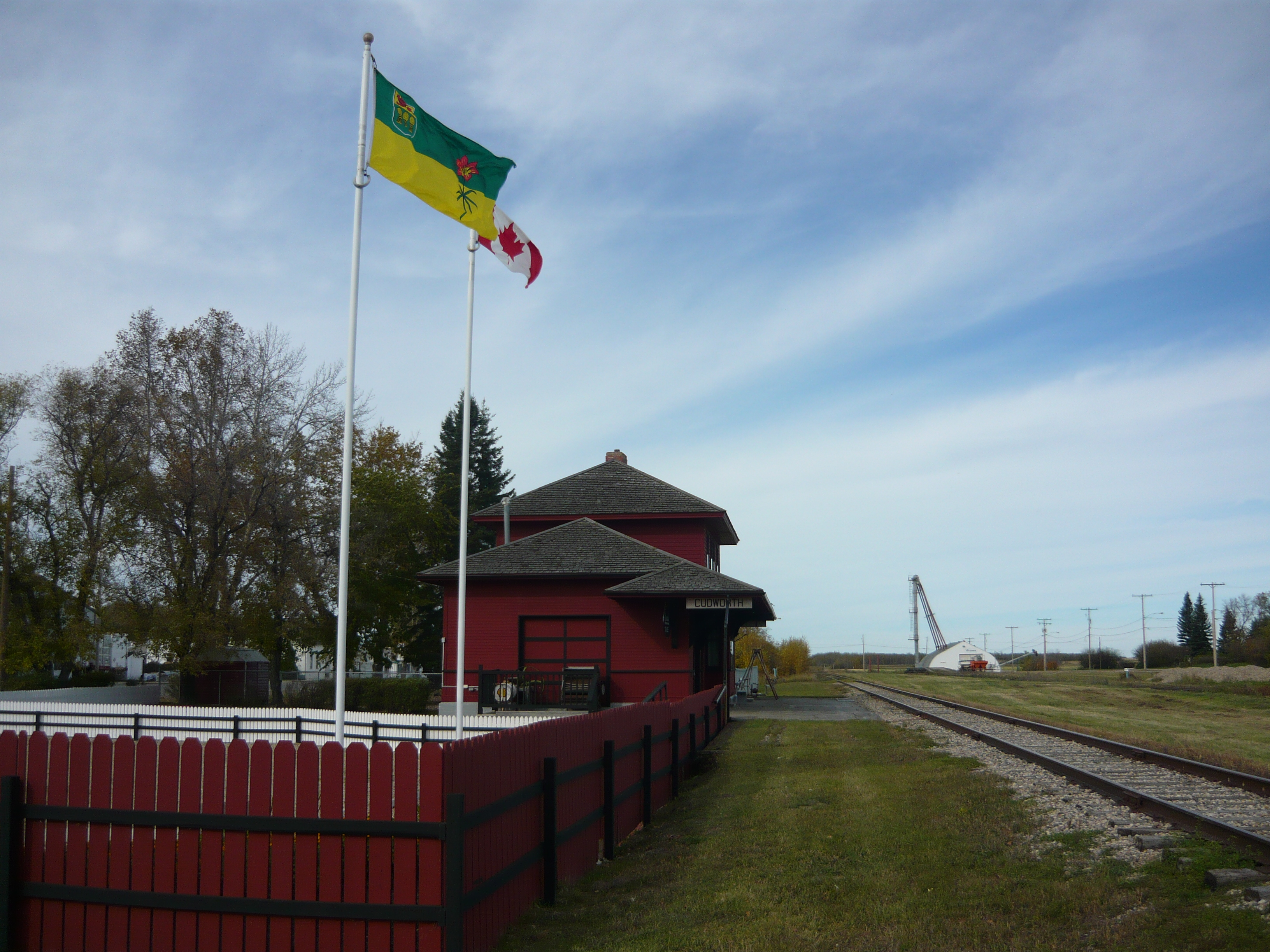 Cudworth Heritage Museum (Former CN train station) at Cudworth, Saskatchewan, Canada.